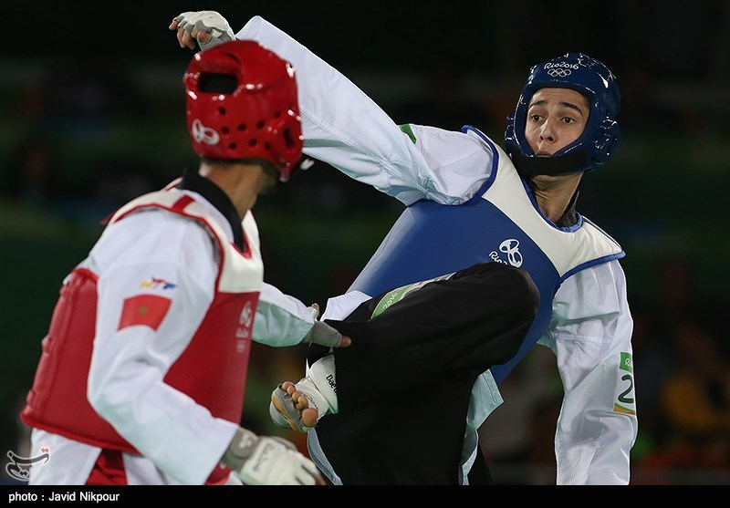 Taekwondo at the 2016 Summer Olympics - 58g